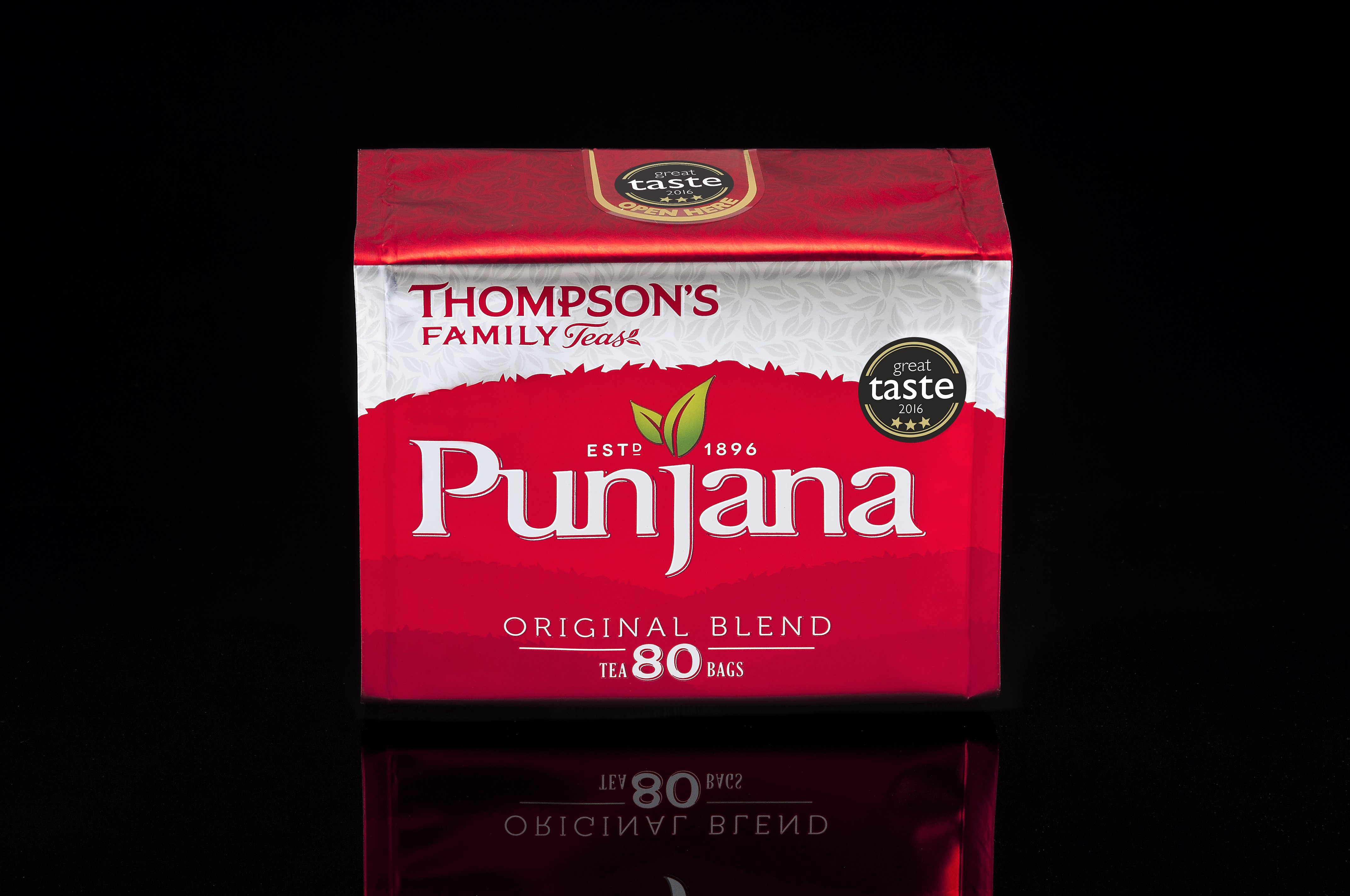 This is the current packaging for Thompson's Punjana. This blend won the maximum 3 Gold Stars from the Guild of Fine Foods in their annual Great Taste Awards.